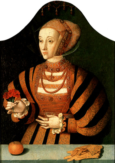 Anne of Cleeves